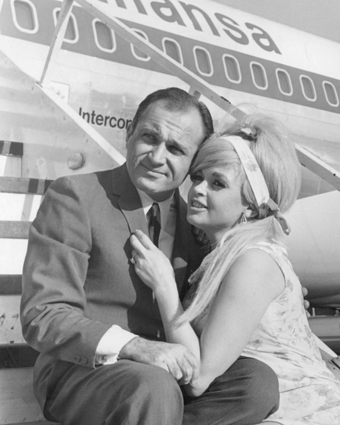 Photo of Jayne Mansfield and her lawyer-boyfriend Sam Brody posing for a photo before a trip to Frankfurt am Main, Germany, where Mansfield was to do some television work. This photo was taken at Chicago's O'Hare airport; Mansfield and Brody arrived from Los Angeles to make their transatlantic air connection. About six weeks after this photo was taken, Mansfield and Brody died, along with the driver of their car, in an auto-truck crash in Louisiana. This is probably one of the last photos of Mansfield.